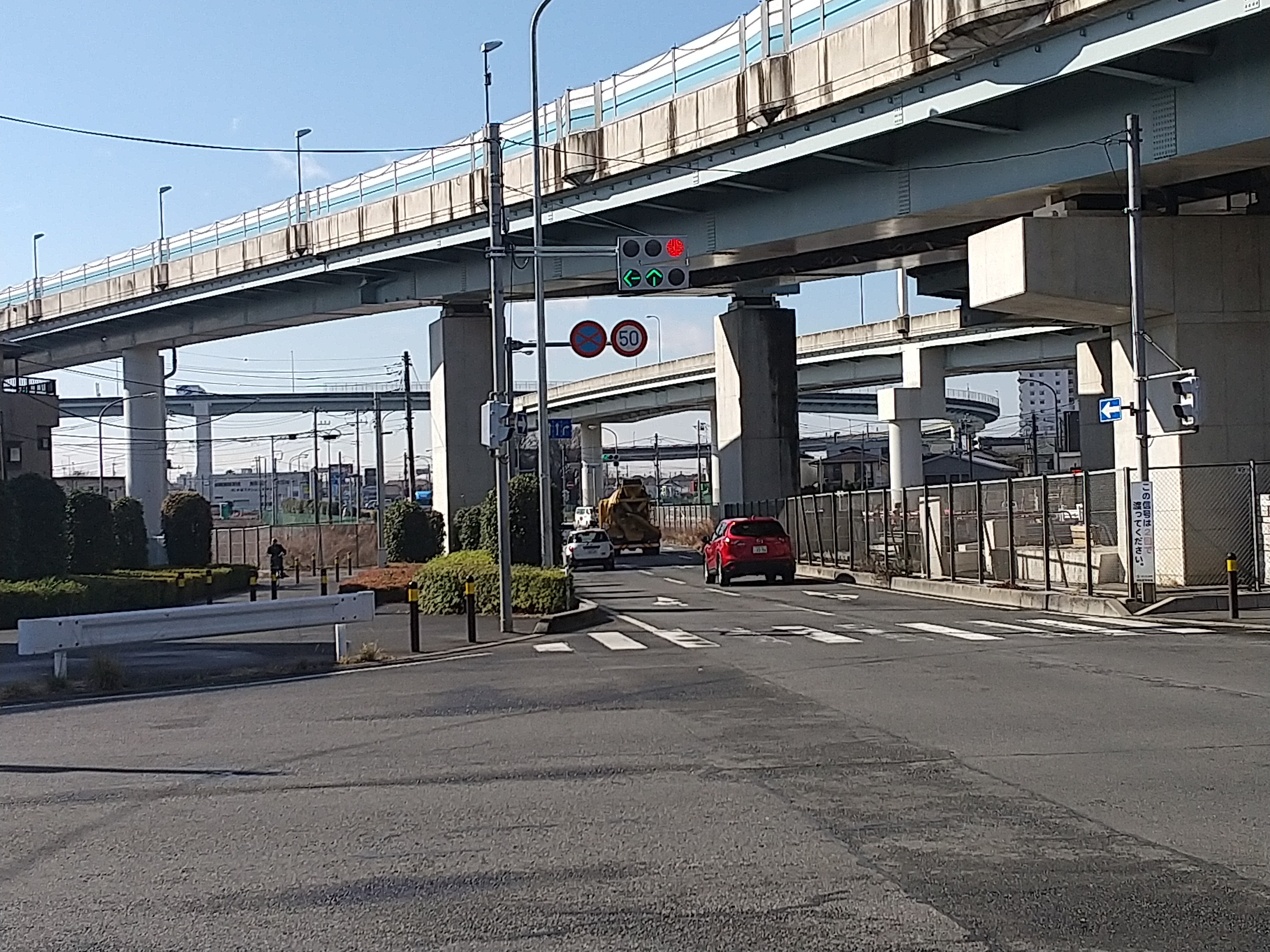 The Saitama Prefectural Road Route 56 under the Yono Junction on the Metropolitan Expressway Route S5